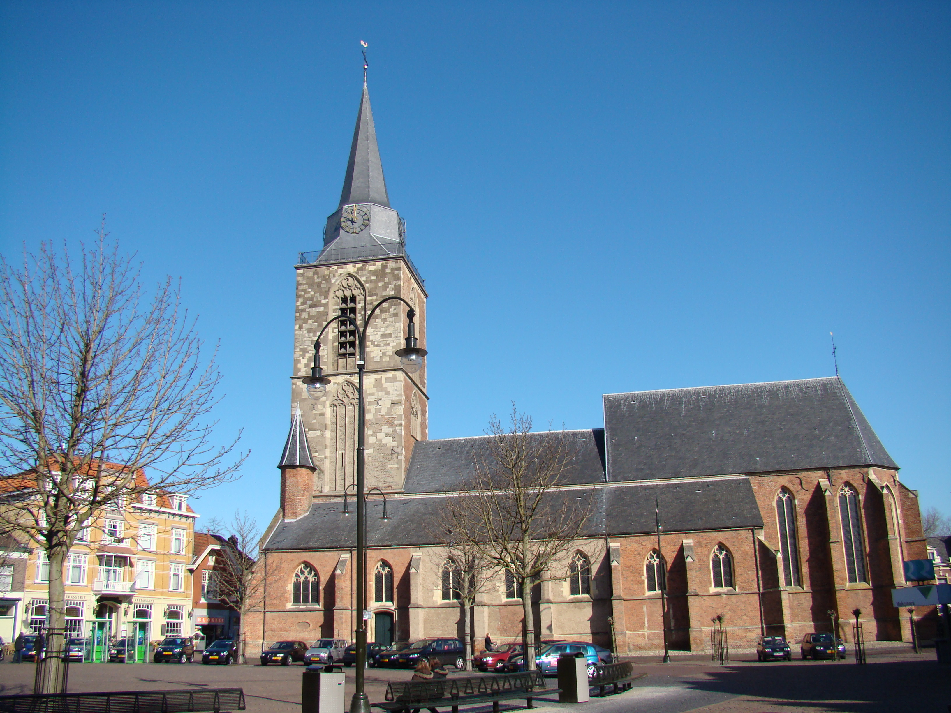 Church of Winterswijk